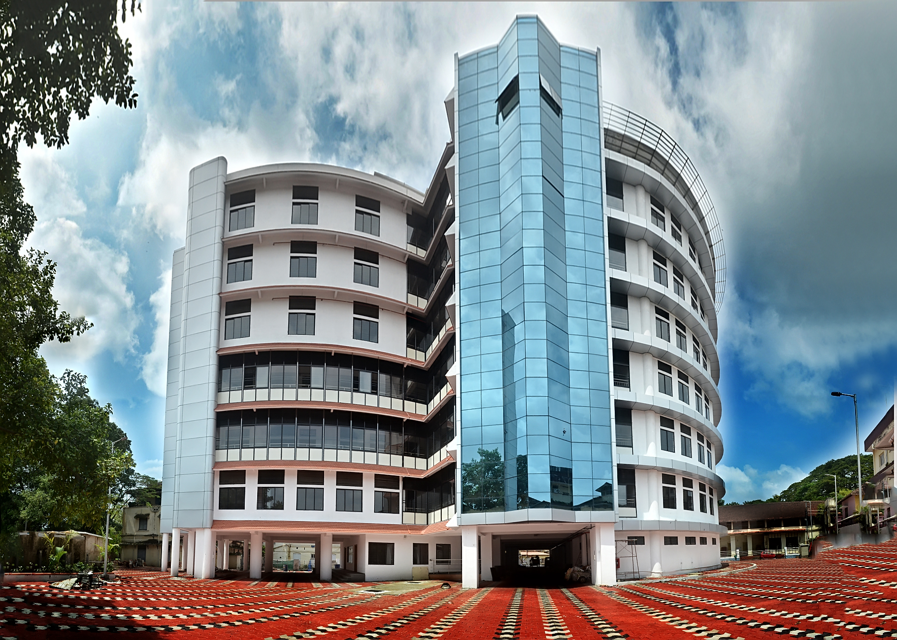 Ernakulam District Court Complex by Augustus Binu